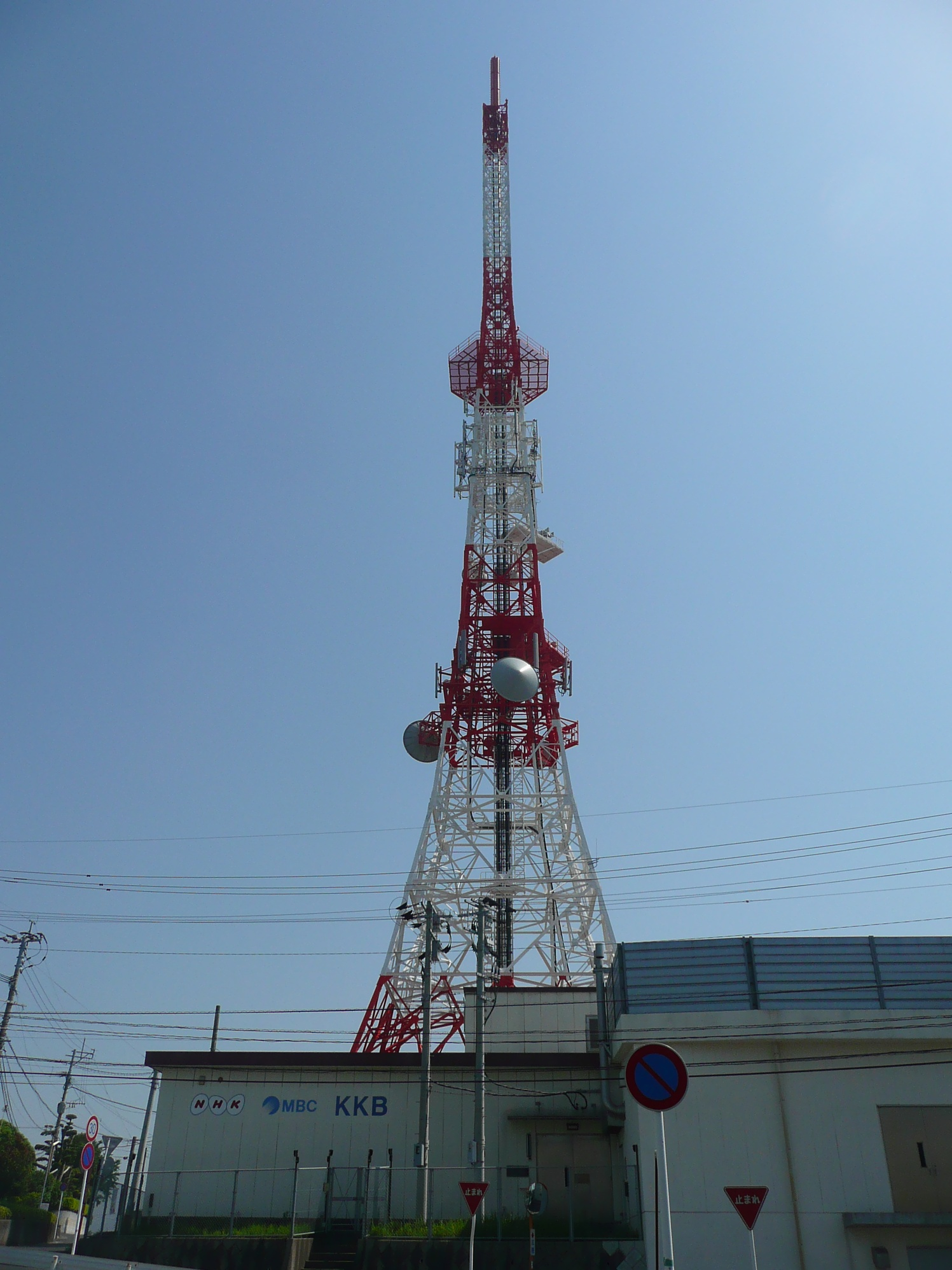 KKB (Kagoshima Broadcasting) Kagoshima Transmitting Tower in 2009 (Murasakibaru, Kagoshima City, Japan)